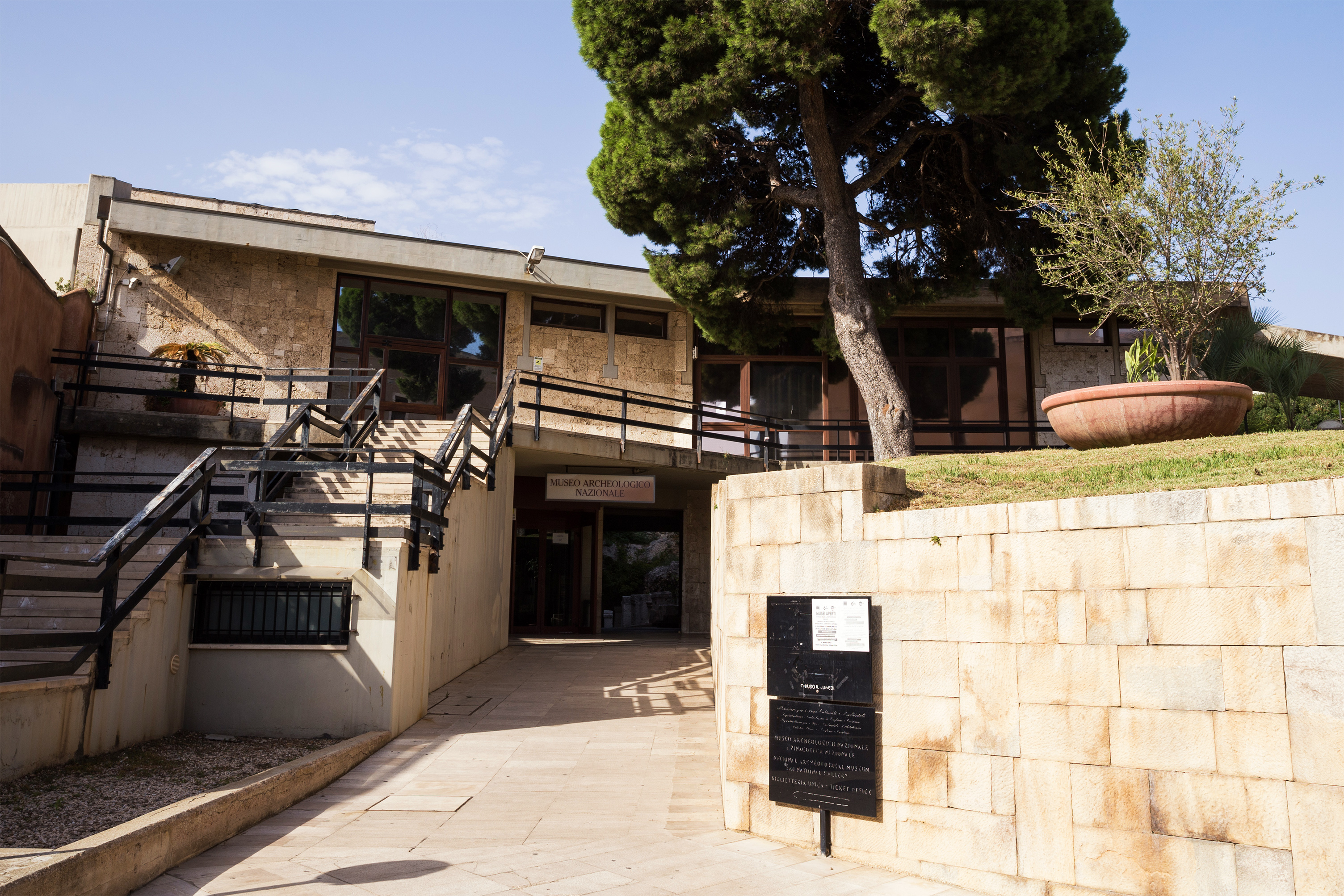 Cagliari, National Archaeological MuseumEsperanto: Cagliari, Nacia Arkeologia Muzeo